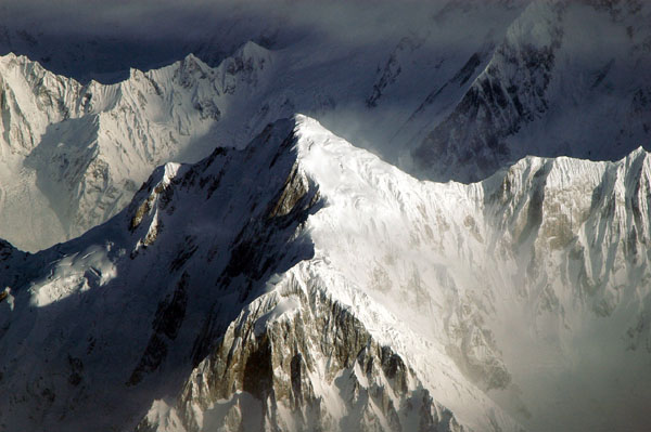 Close-up aerial photo of Sangemar Mar, or Sangemarmar Sar, in the Batura Muztagh of Pakistan. View from the southeast.